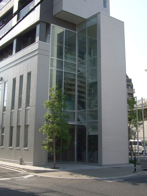 Matsudo Kousan Co., Ltd.